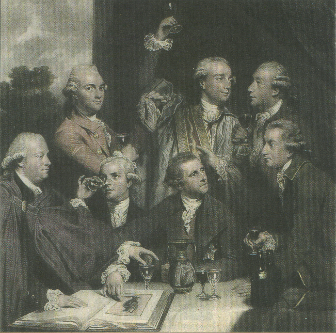 THE DILETTANTI SOCIETY, No. 2 PORTRAIT group of seven figures placed round a table. On the left of the composition is (1) Sir Watkin Williams Wynn, his right hand on an open book, showing a reproduction of an Etruscan oenochoe, his left pointing to an amphora placed in the centre of the table; (2) Mr. J. Taylor, afterwards Sir John Taylor, stands at the back, holding a glass in his right hand and a piece of precious material in his left; (3) Mr. Stephen Payne-Gallwey sits in front of him, and is drinking out of a glass; (4) Sir William Hamilton, the husband of Romney's and Nelson's Lady Hamilton, seated in the centre of the group and wearing the Order of the Bath, points with his right hand to the open book on the table; (5) Mr. Richard Thompson, standing at the back slightly to the right of the centre of the composition, with his right hand raises his glass above his head; a sash of office is over his right shoulder; (6) Mr. Spencer Stanhope; (7) Mr. John Lewin Smyth of Heath. [1]